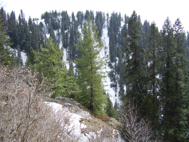 Mukeshpuri peak, in the Nathia Gali area, Khyber Pakhtunkhwa of northern Pakistan. Showing Western Himalayan subalpine conifer forests in Ayubia National Park. Pinus wallichiana is primary conifer.